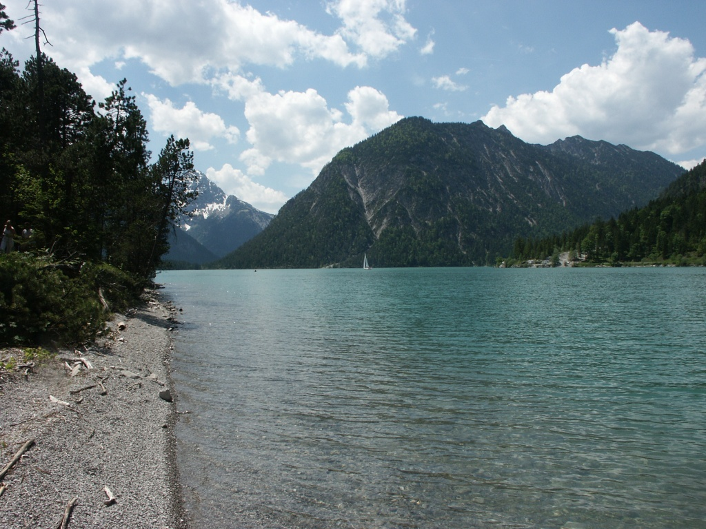 Plansee in Tyrol, Austria, with in the background the Schrofennas (1708 metres) and Tauern (1841 metres). The mountain top on the left, behind the tree top, partly covered by snow, is the Thaneller (2341 metres)